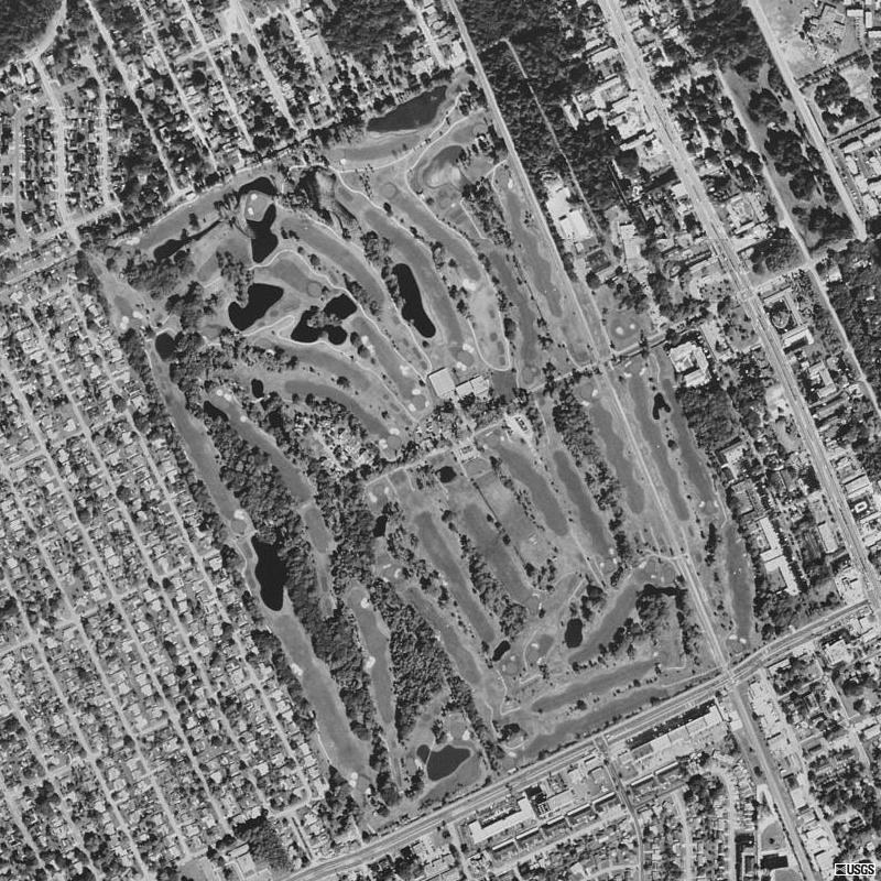 USGS orthophoto of Daytona Beach Golf Course in Daytona Beach, Volusia County, Florida, United States.